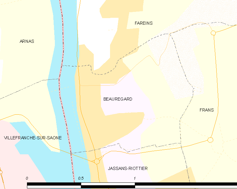 Map of French commune: Beauregard Map commune FR insee code 01030.png